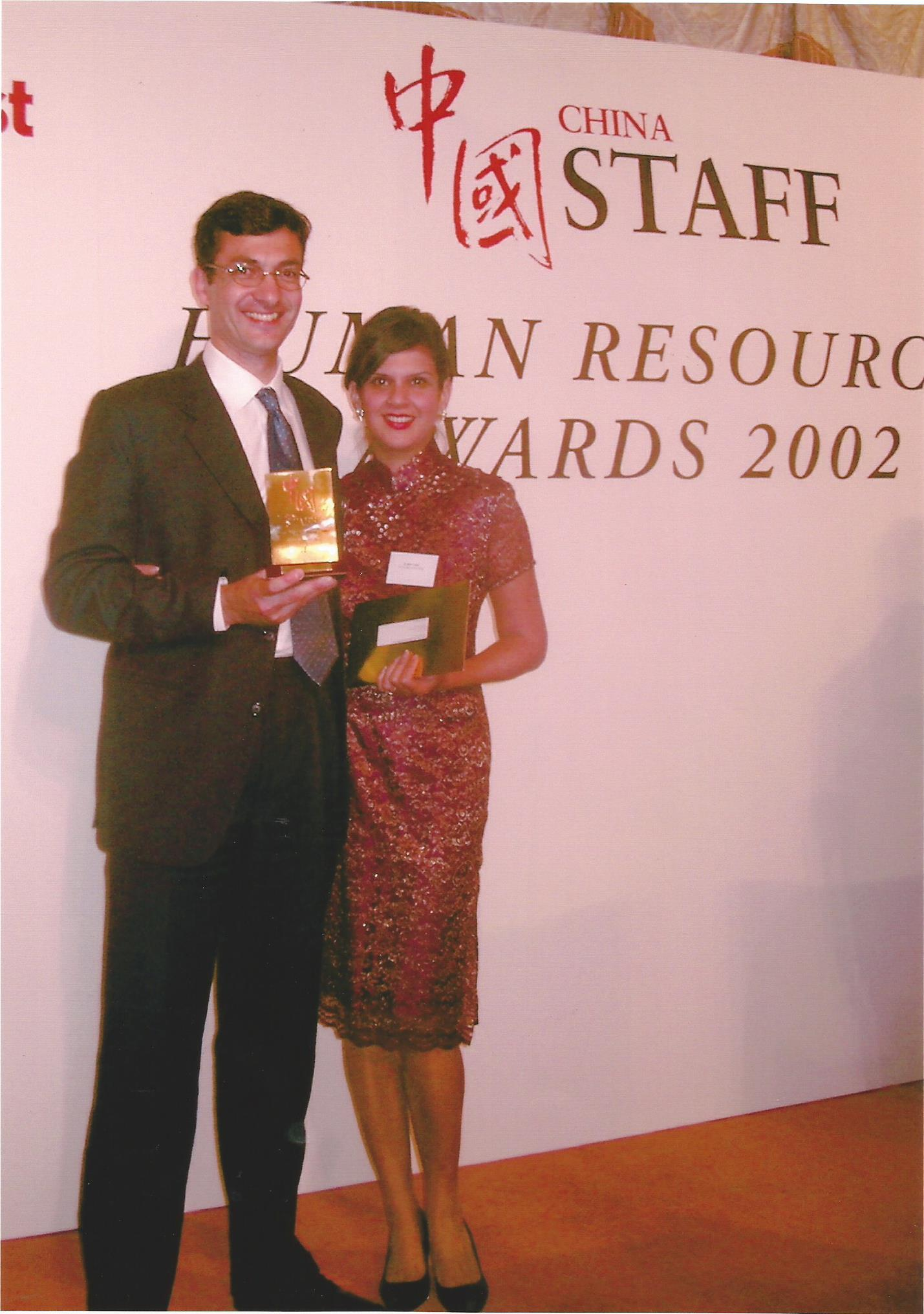 Cumberland with his wife and co-founder of St. George's Consulting, Evelyn Capel, receiving the award for their firm being awarded the Hong Kong Recruitment Firm of the Year title at the 2002 China Staff Magazine HR Awards held at Hong Kong's Ritz Carlton Hotel